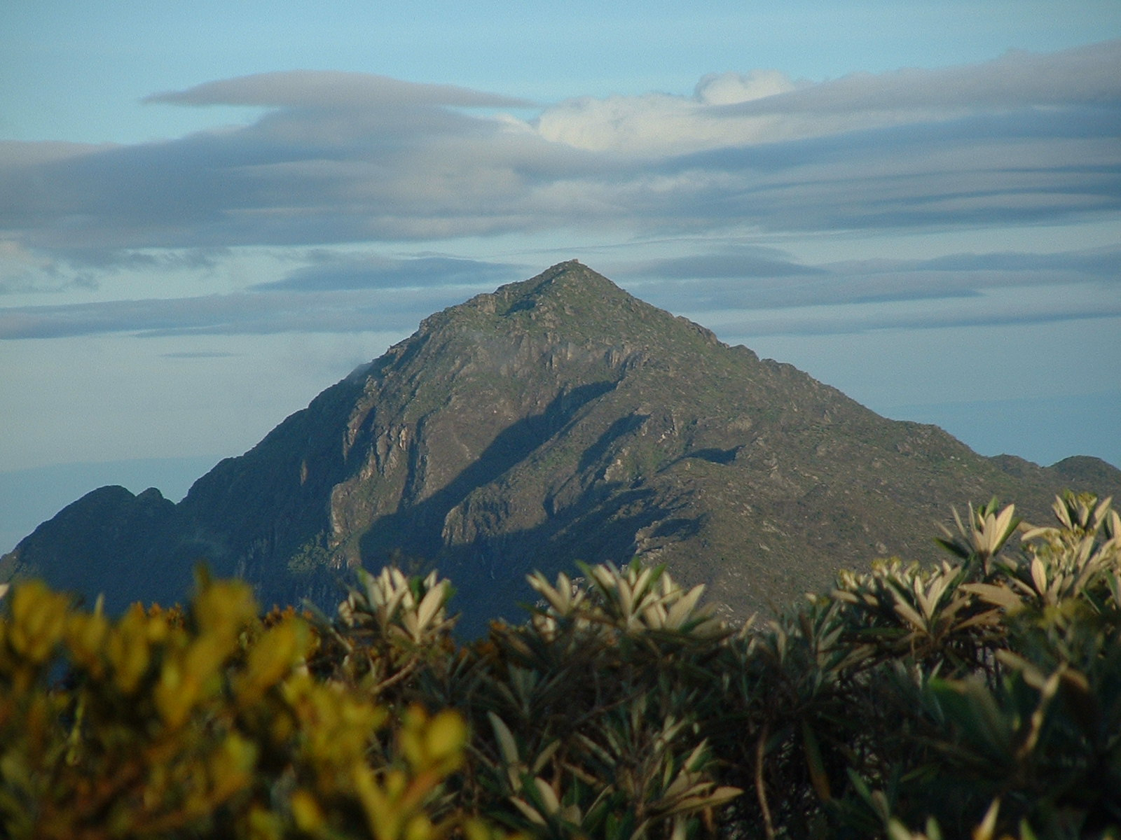 Naiguata Peak in Ávila National Park and the Venezuelan Coastal Ranges. In northern Caracas, looking from the "Silla de Caracas" feature.